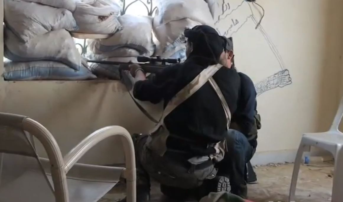 A Syrian rebel sniper in Khan al-Assal, Aleppo province.